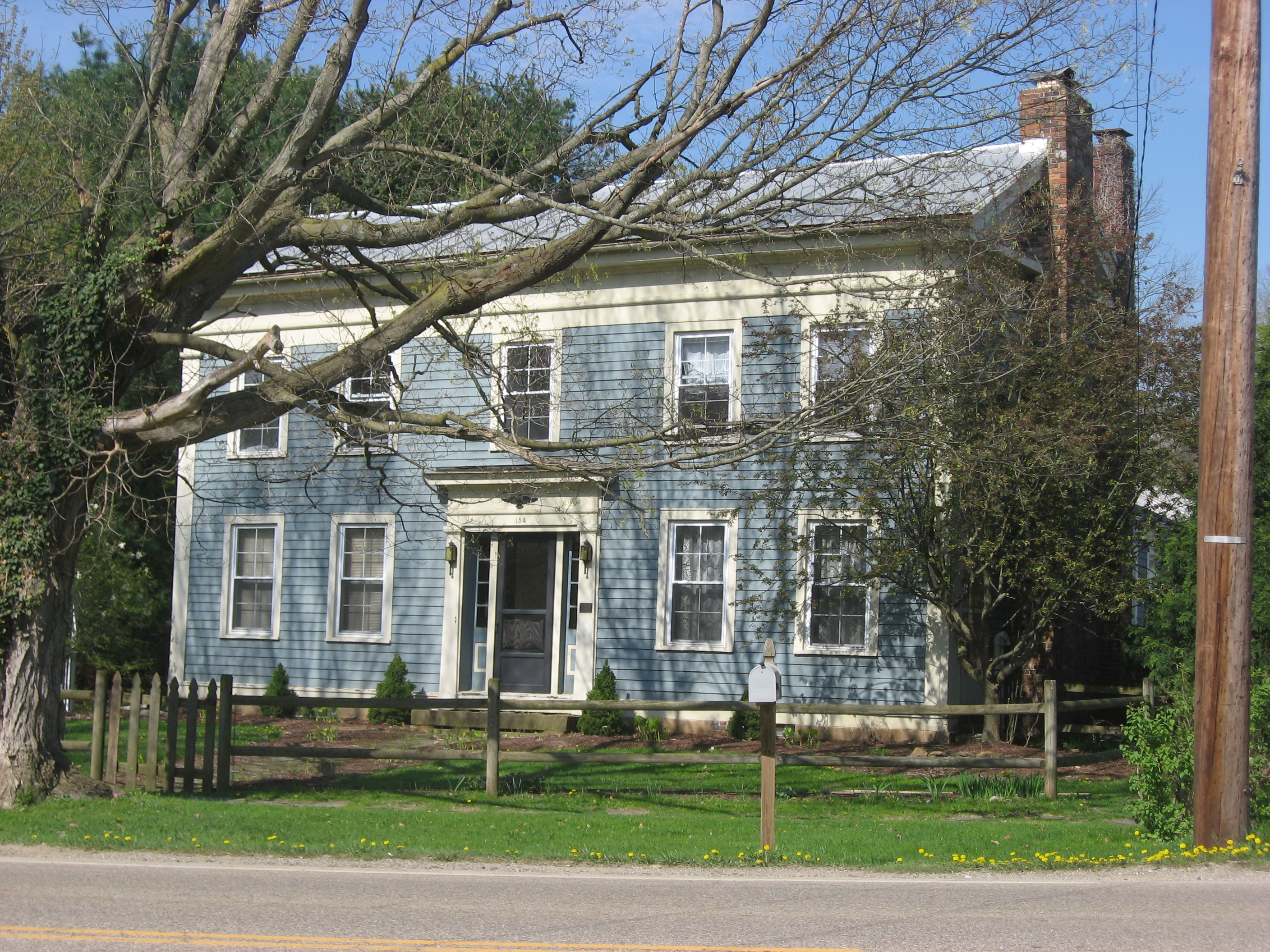 Front of the Enos Miles House, located at 154 S. Portland Street (State Route 314) in Chesterville, Ohio, United States. Built in the 1830s, it is listed on the National Register of Historic Places.